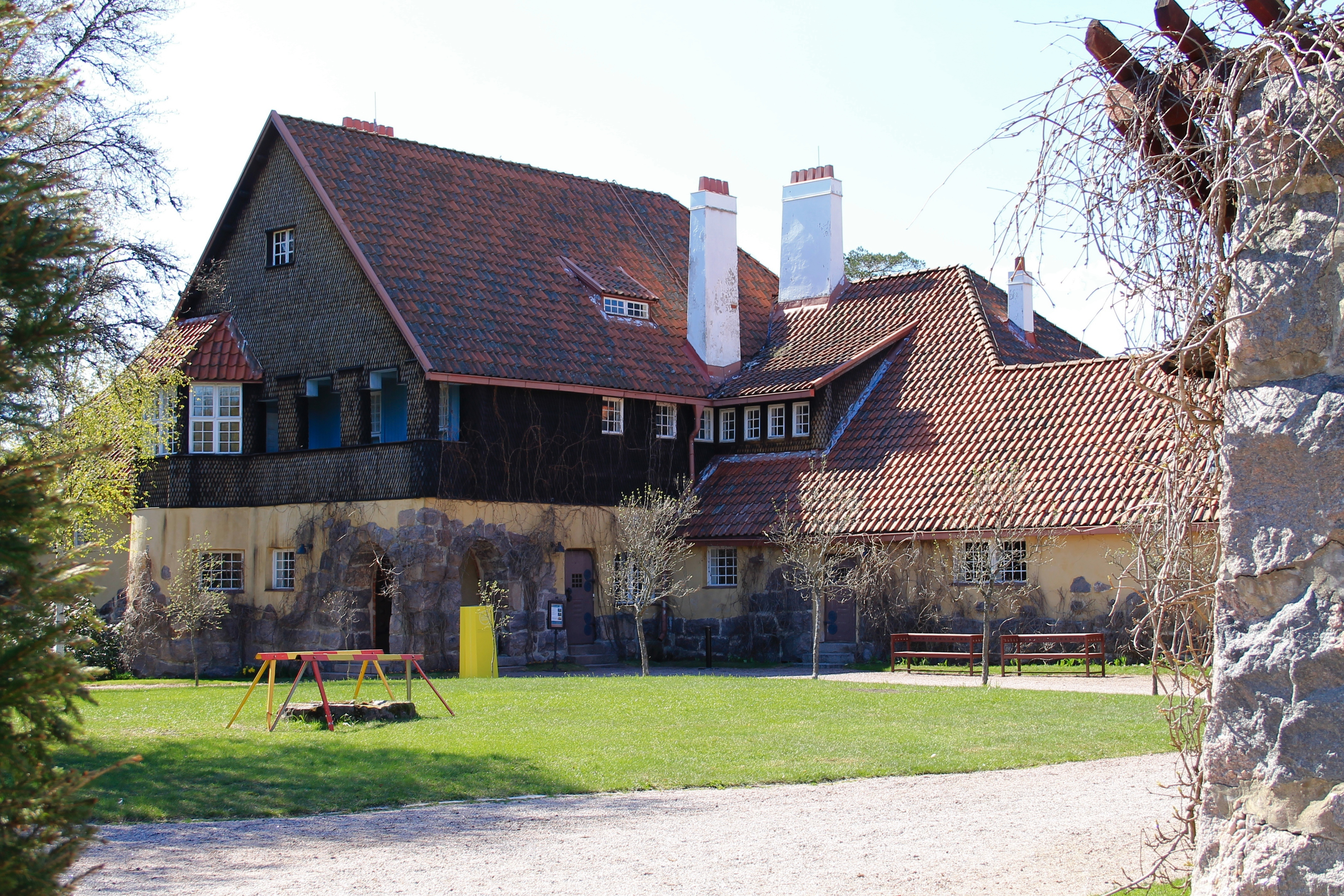 Courtyard of Hvitträsk.